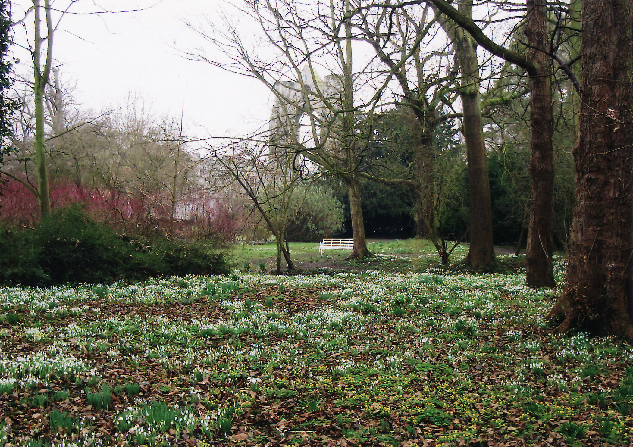 Picture of gardens at Walsingham Norfolk